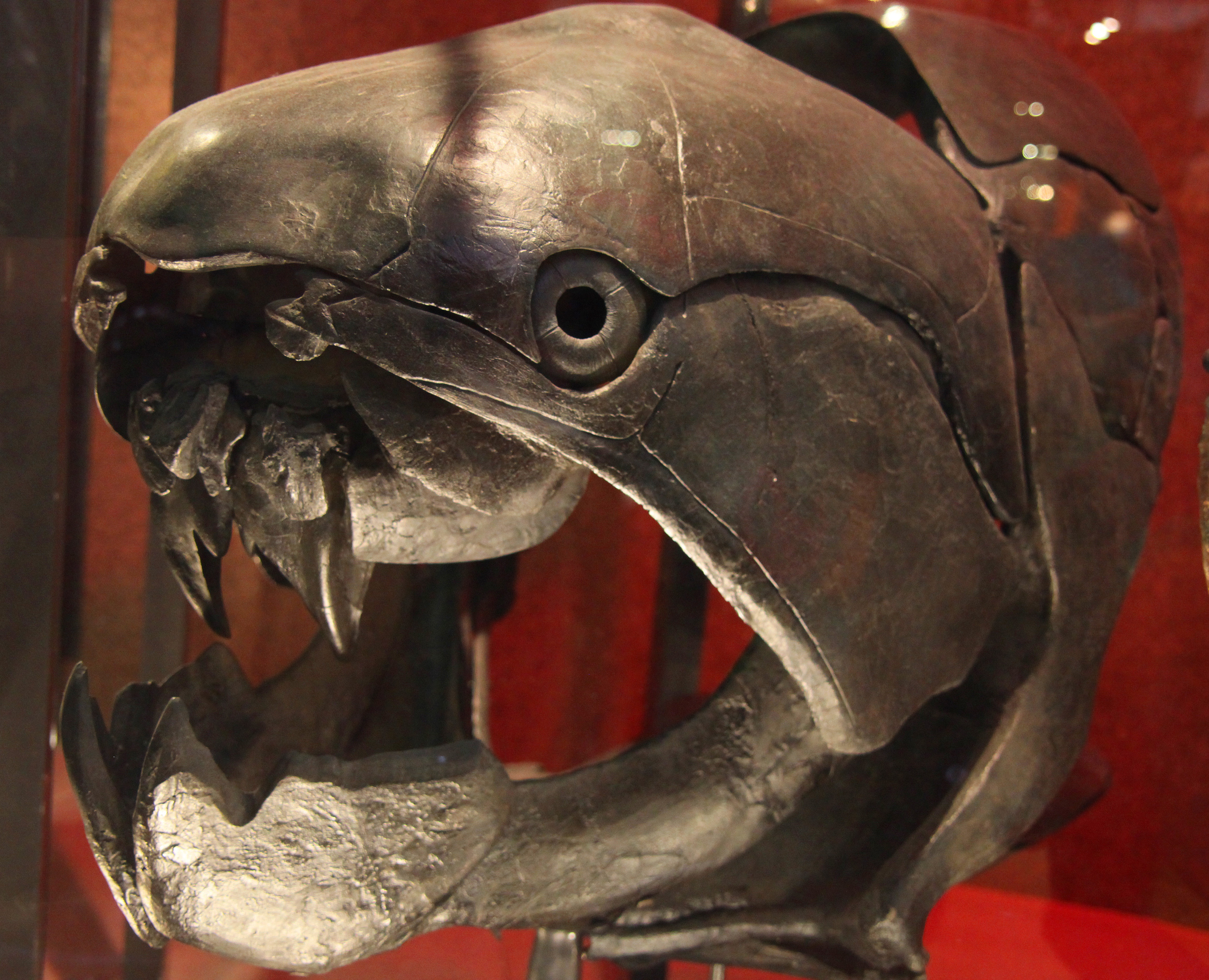 A fossil Dunkleosteus terrelli skull on display in the Sant Hall of Oceans in the Smithsonian Museum of Natural History. Dunkleosteus terrelli was a prehistoric fish that lived about 380 to 360 million years ago. Unlike modern fish, it had heavy bones (not cartilage) in its skull. It was a carnivore, about 33 feet long, and the second-largest predator in the ocean at the time. Dunkleosteus terrelli was first discovered in 1873. At the time, scientists thought it was part of the species Dinichthys, but they have since realized it was a separate species. Dunkleosteus was renamed in 1956. The name honors David Dunkle, a paleontologist at the Cleveland Museum of Natural History. There are several sub-species, but Dunkleosteus terrelli is the largest. It has been found throughout the U.S. (Ohio, Pennsylvania, Tennessee, California, and Texas). This fossil was found in Red Hill, Pennsylvania.